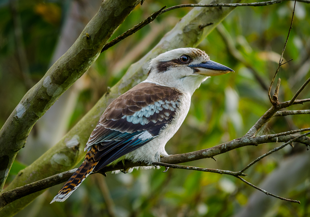 A Laughing Kookaburra in Brisbane, Queensland, Australia.